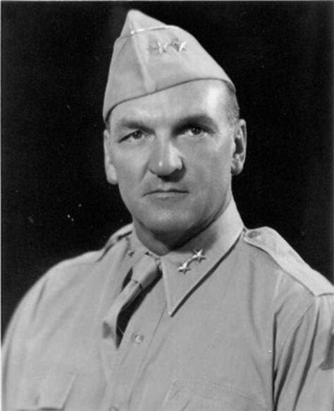 Major General John Shirley Wood (1888 - 1966)